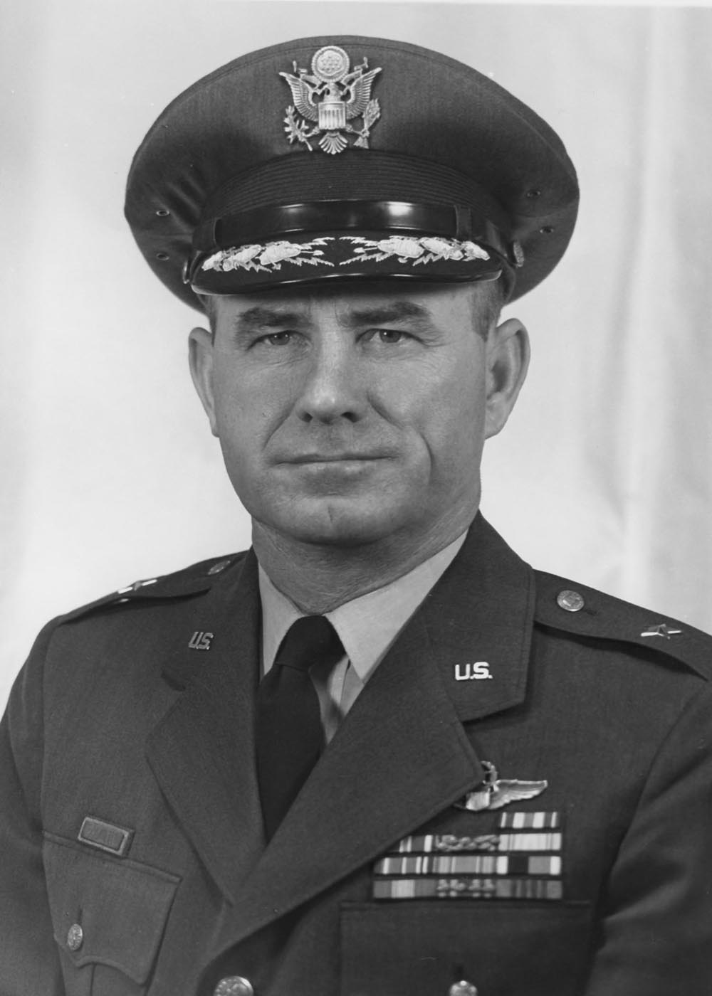 Brigadier General Edit entry Kyle Loyd Riddle of the United States Air Force